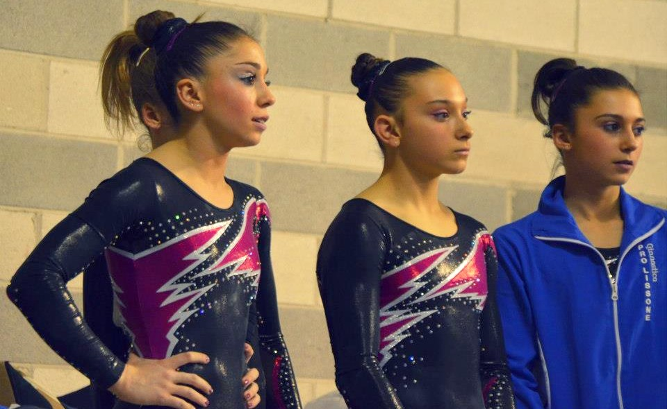 Enus Mariani, Martine Buro, Arianna Salvi. Ancona, 9th february 2013